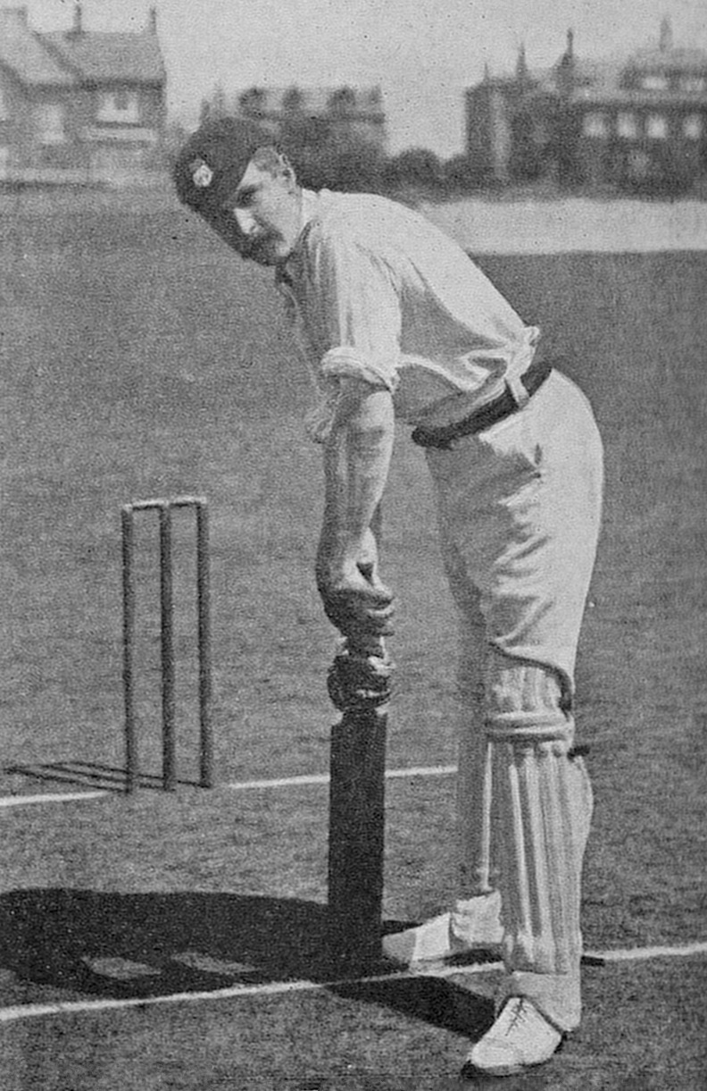 Scan of cricketer Herbert Ward